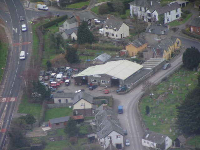 Clyro from the air.